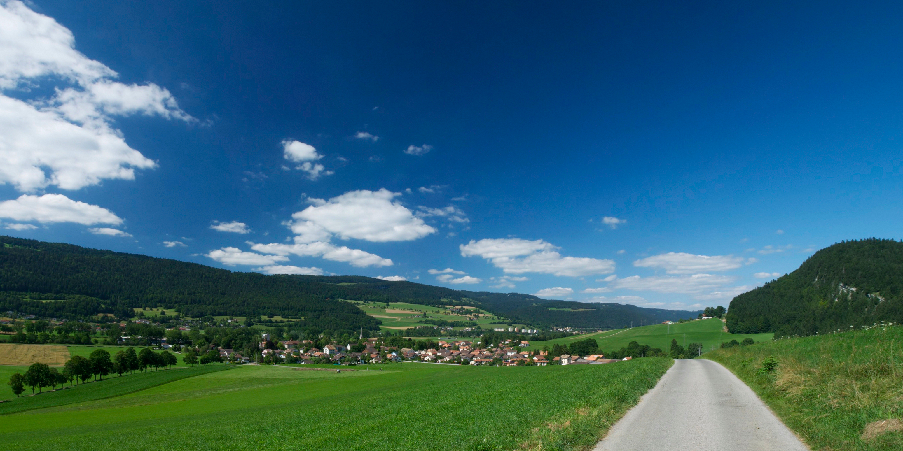 View of the Val-ed-Travers